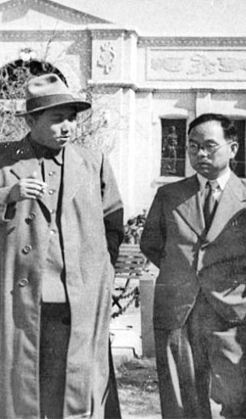 Pak Hon-yong, right, with Kim Il-sung in 1948